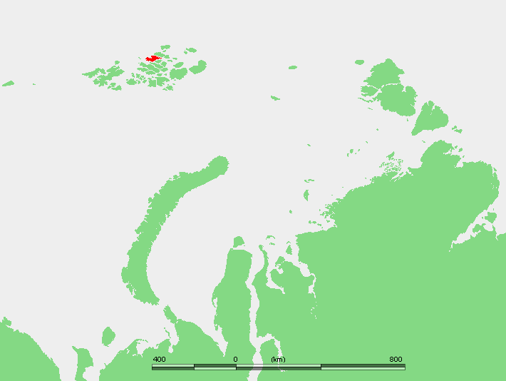 Nordensjelda Islands